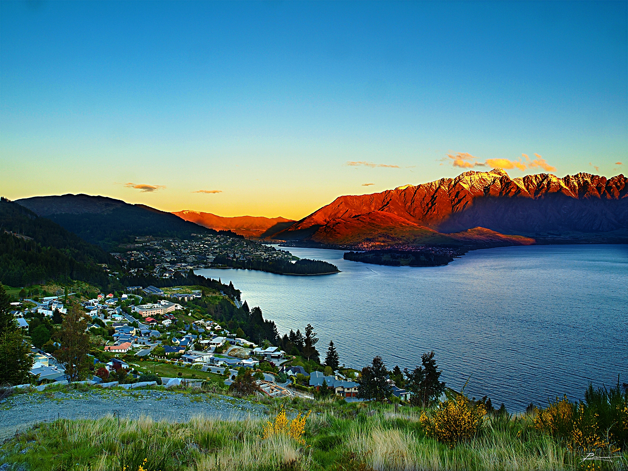 Sunset view of Queenstown/Fernhill/Lake Wakatipu and The Remarkables